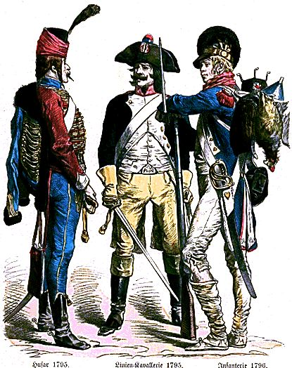 French Revolutionary Army Hussar, Line Cavalryman and Line Infantryman, 1795-96.